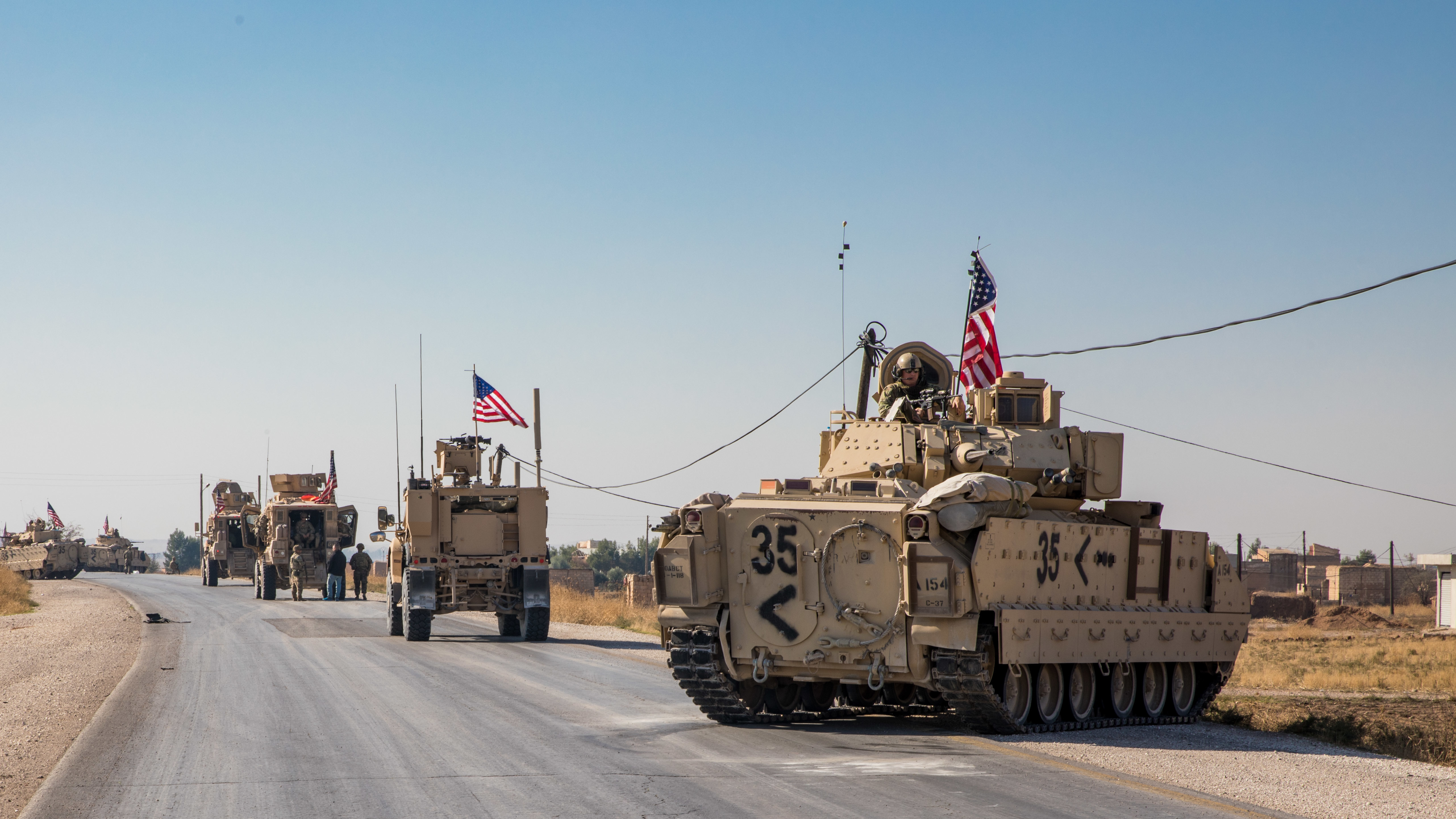 U.S. Soldiers in the 4th Battalion, 118th Infantry Regiment, 30th Armored Brigade Combat Team, North Carolina Army National Guard, attached to the 218th Maneuver Enhancement Brigade, South Carolina Army National Guard, provide M2A2 Bradley Fighting Vehicles for support to Combined Joint Task Force-Operation Inherent Resolve (CJTF-OIR) eastern Syria Nov. 10, 2019. The mechanized infantry troops partner with Syrian Democratic Forces to defeat ISIS remnants and protect critical infrastructure in eastern Syria. (U.S. Army Reserve photo by Spc. DeAndre Pierce)